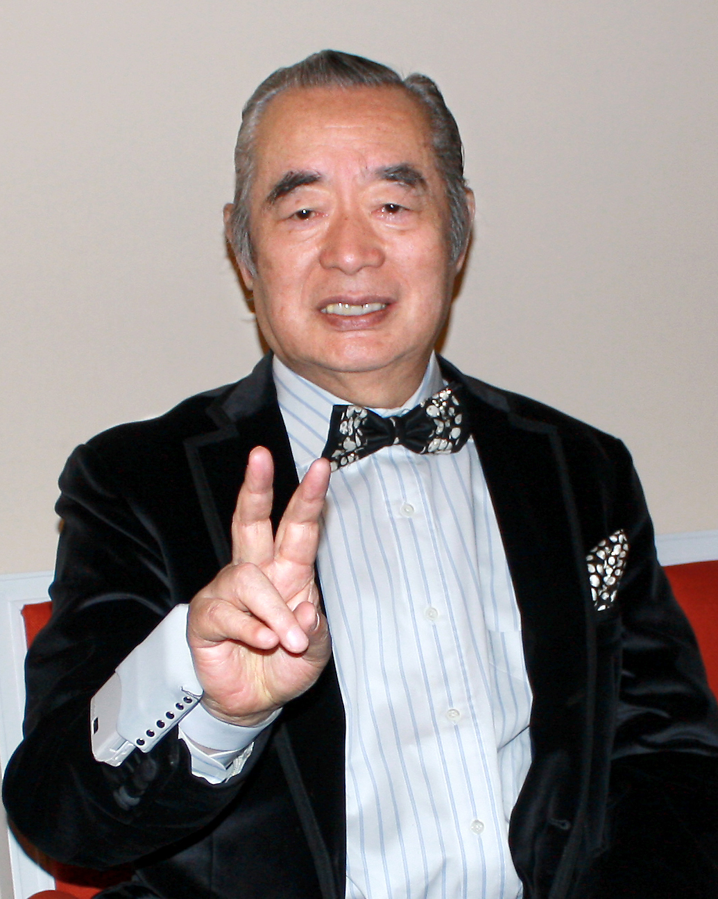 Yoshiro Nakamatsu (中松 義郎 Nakamatsu Yoshirō), also known as Dr. NakaMats, on May 14th, 2010, in Warsaw, Poland, as a guest of Doc Planete Review Film Festival.